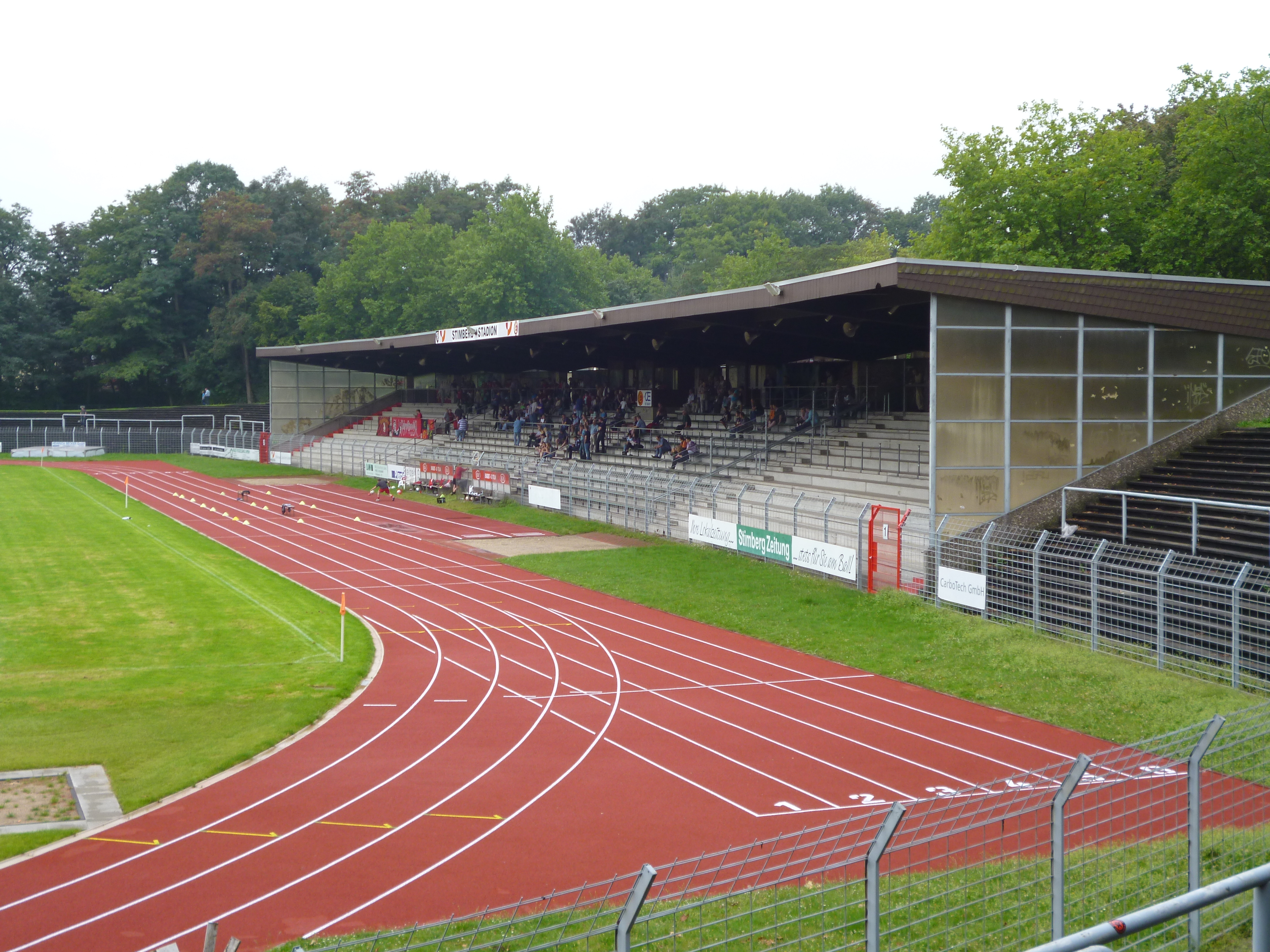 Stimbergstadium Oer-Erkenschwick 2011, Main Stand